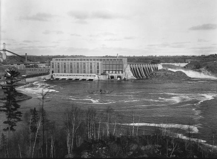 Photograph, General view of the Grand-Mère station of the Shawinigan Water and Power Co., on the St-Maurice river, in Grand-Mère, QC, 1917. William Notman & Son. Silver salts on glass - Gelatin dry plate process - 20 x 25 cm